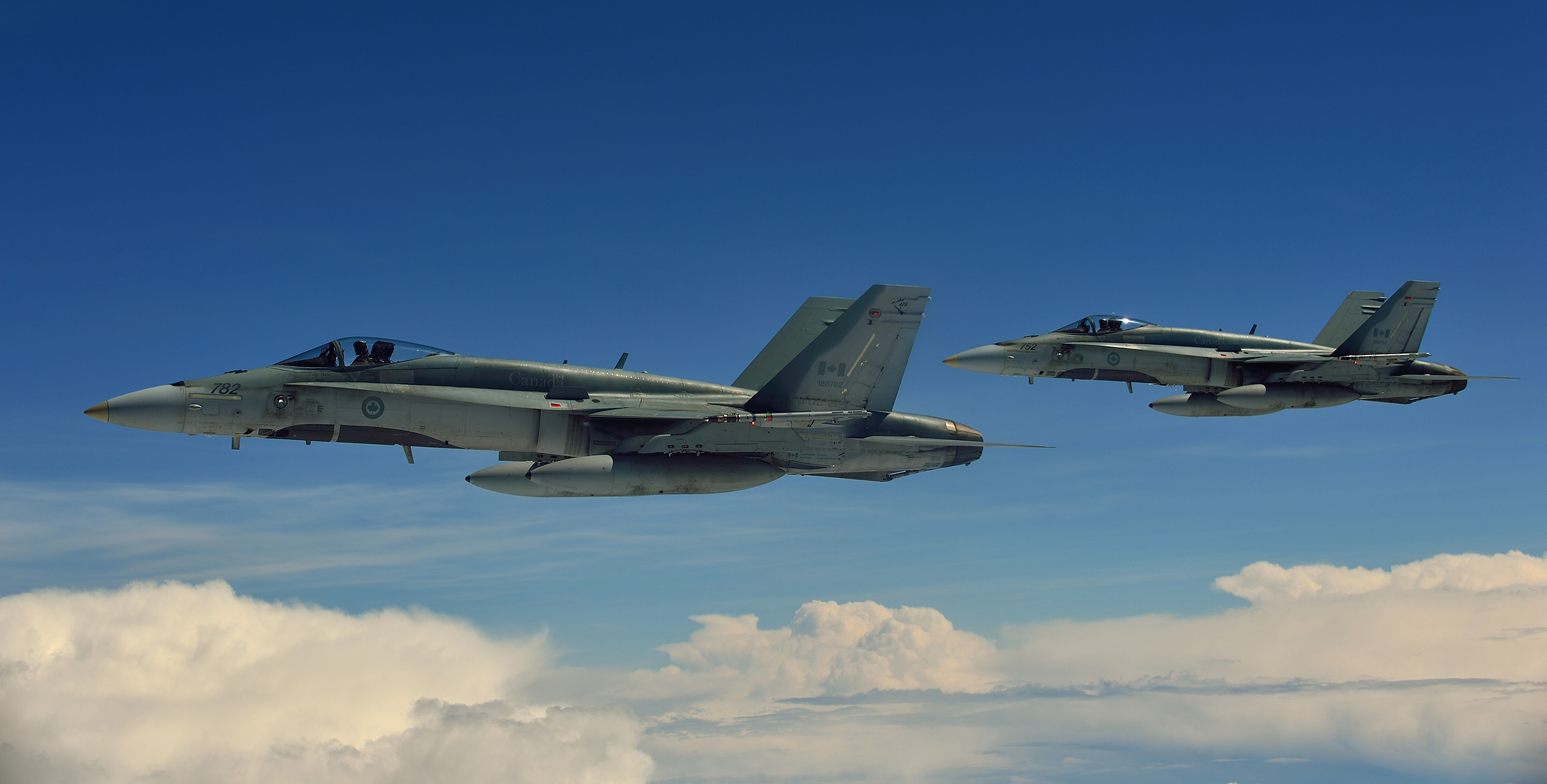 Royal Canadian Air Force CF-188 Hornets approach a Colombian A.F. KC-767 tanker during Exercise Maple Flag 2013